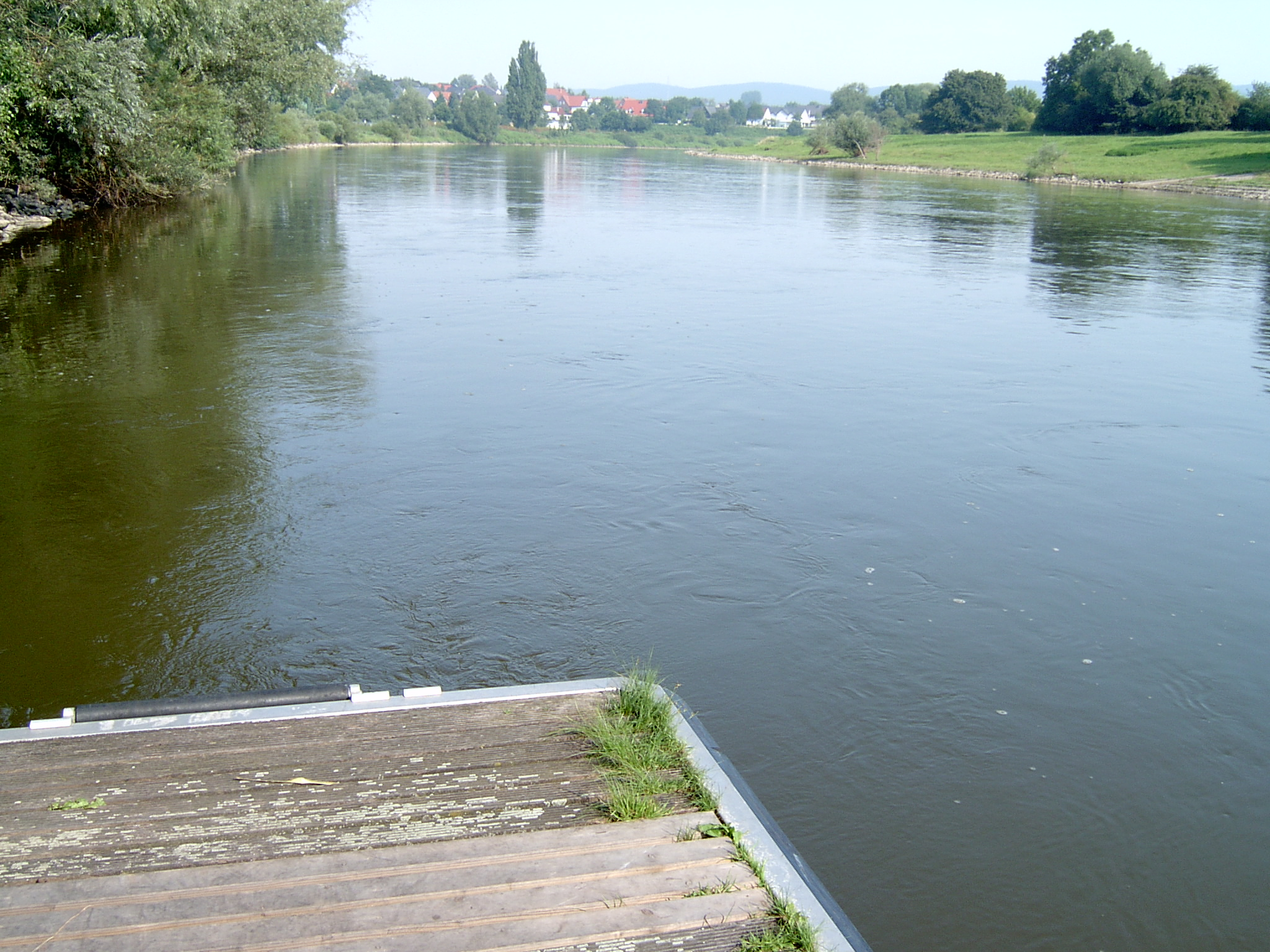 River Weser in Bad Oeynhausen, Minden-Lübbecke, North Rhine-Westphalia, Germany.